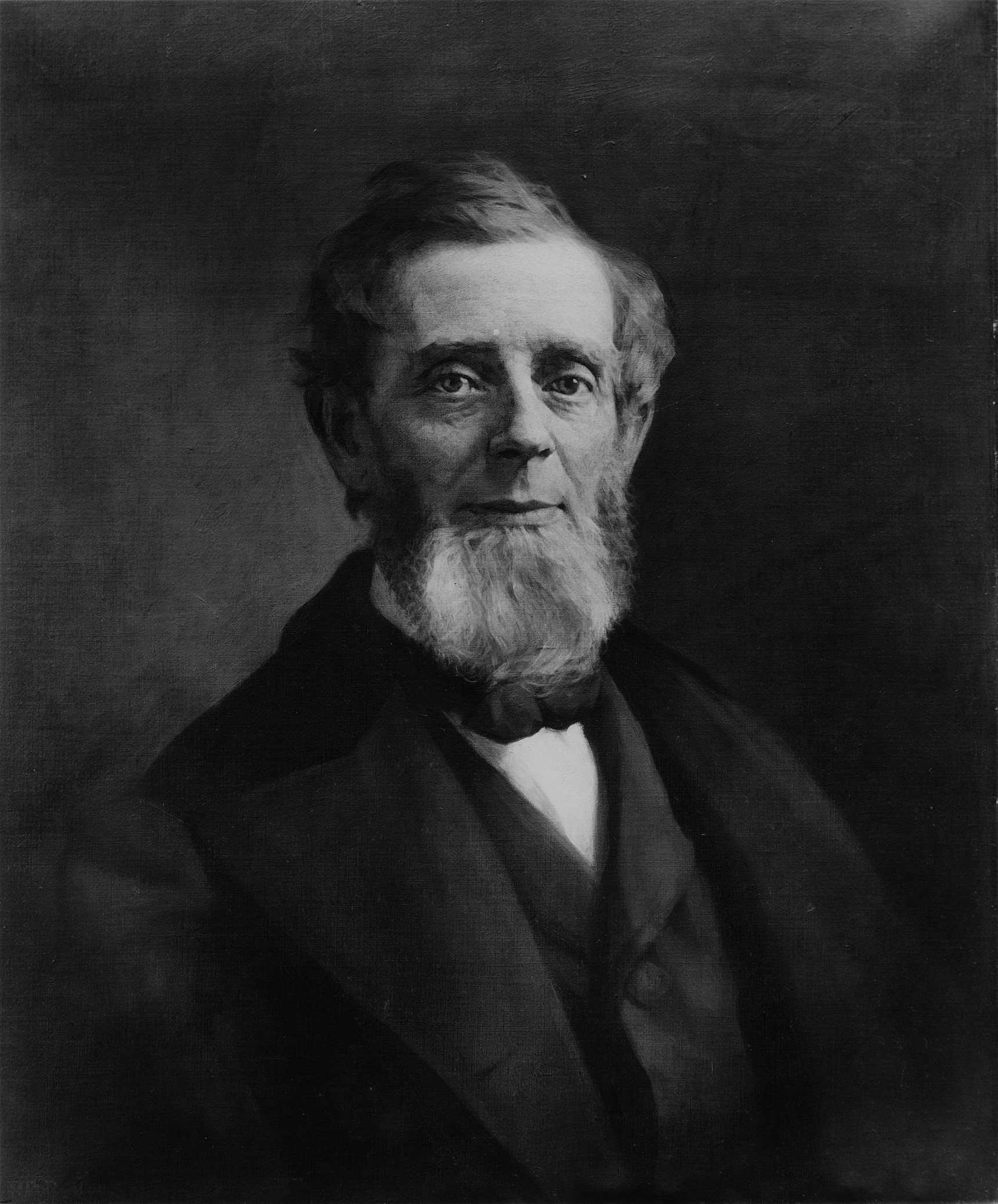 George P. Putnam Artist: Platt Powell Ryder (1821–1896) Date: 1872 Medium: Oil on canvas Dimensions: 27 1/2 x 22 1/16 in. (69.9 x 56 cm) Classification: Paintings Credit Line: Gift of Samuel P. Avery, 1893